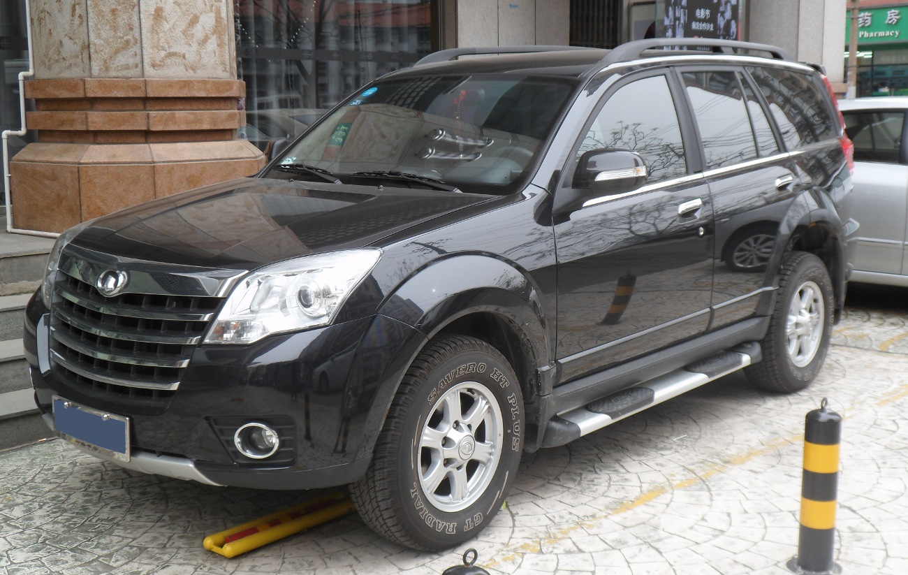 Great Wall Haval H5 Extreme Edition photographed in Shanghai, China.